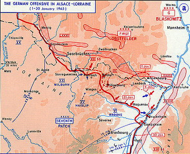 Operations map of German counter in Alsace Lorraine in January 1945